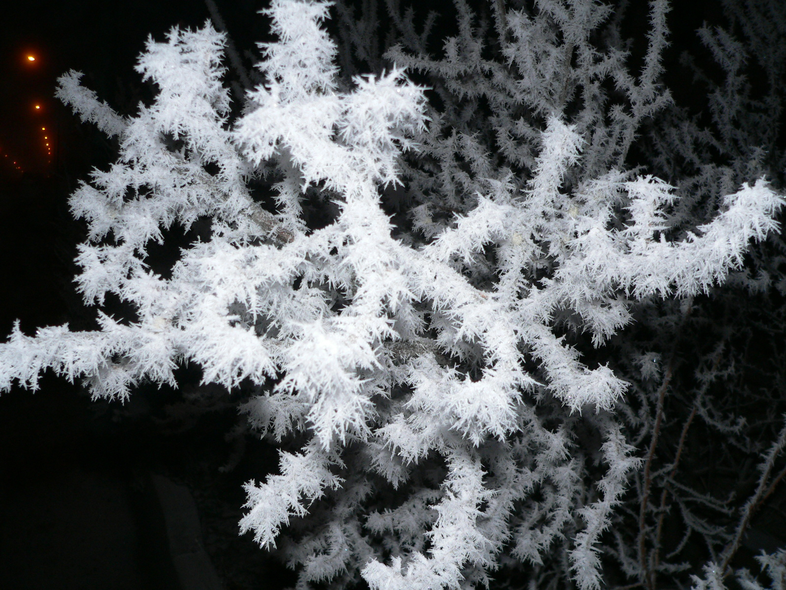 Formation of ice due to high humidity and low temperatures. Observed February 26, 2005, in Akureyri, Iceland.